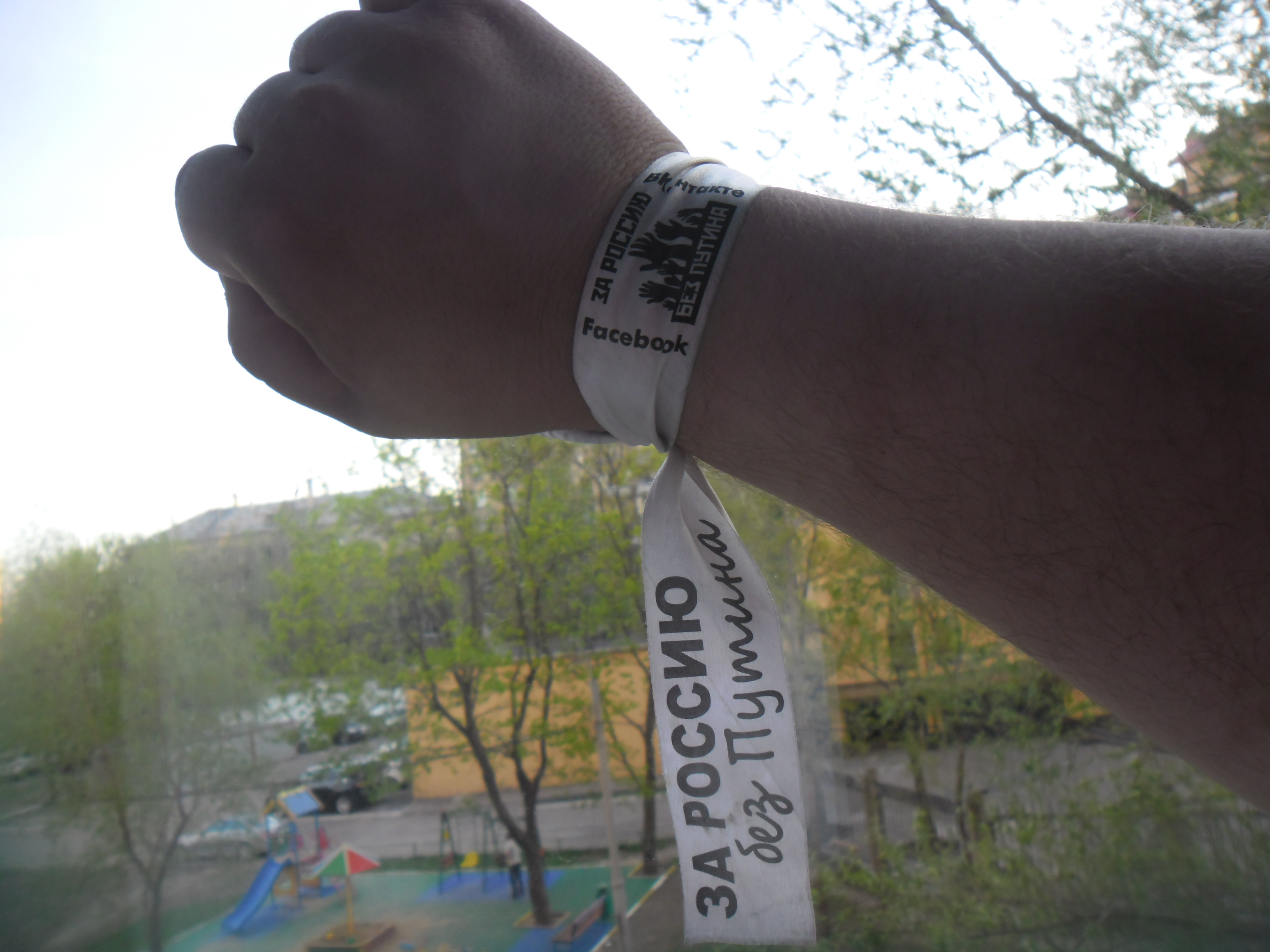 The hand with a white ribbon "For Russia Without Putin", Moscow